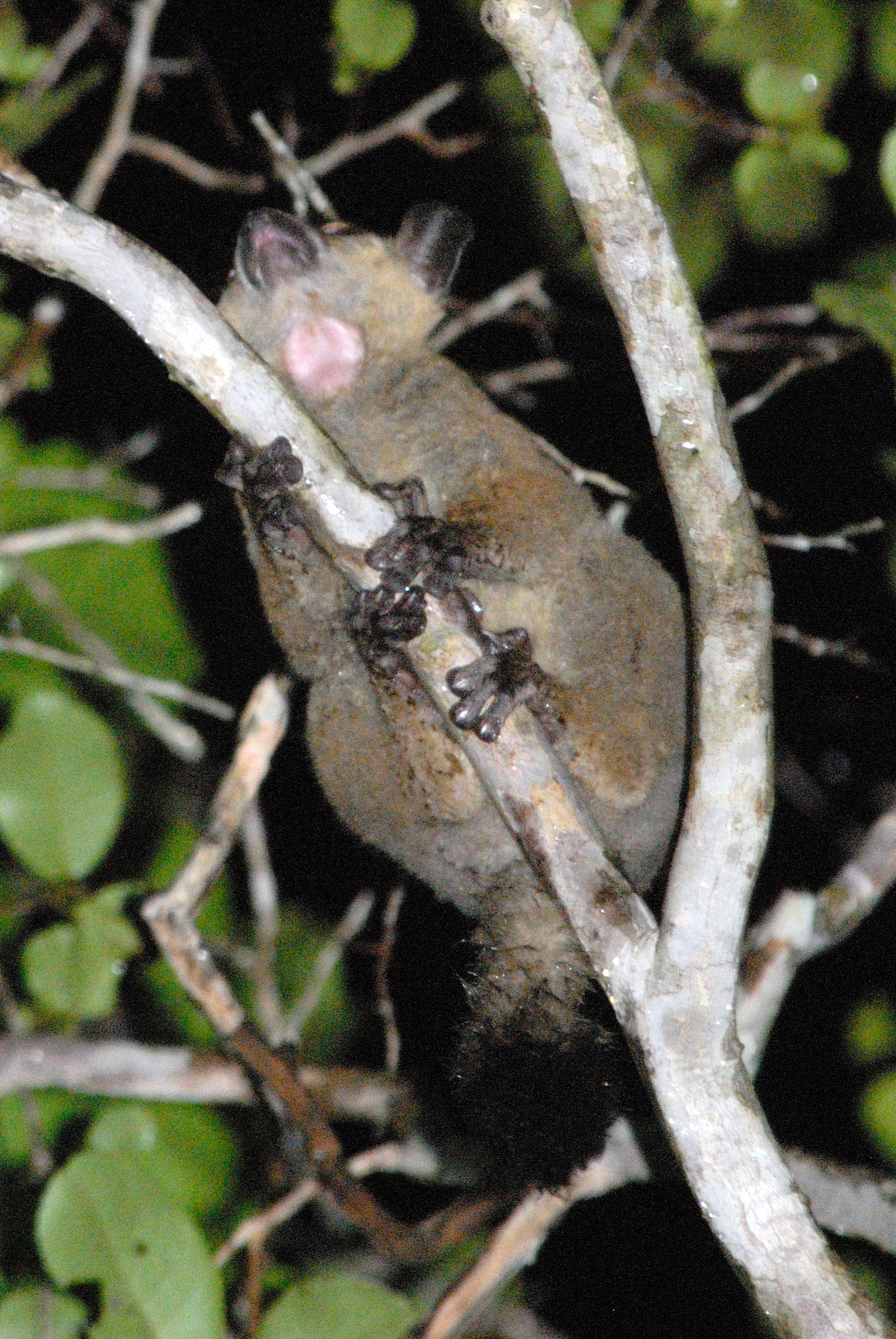 Fork-marked dwarf lemur (Phaner pallescens), Kirindy Forest, Madagascar, January 2008